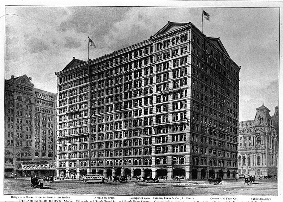 Architect's rendering of the Arcade Building, Broad & Market Streets, Philadelphia